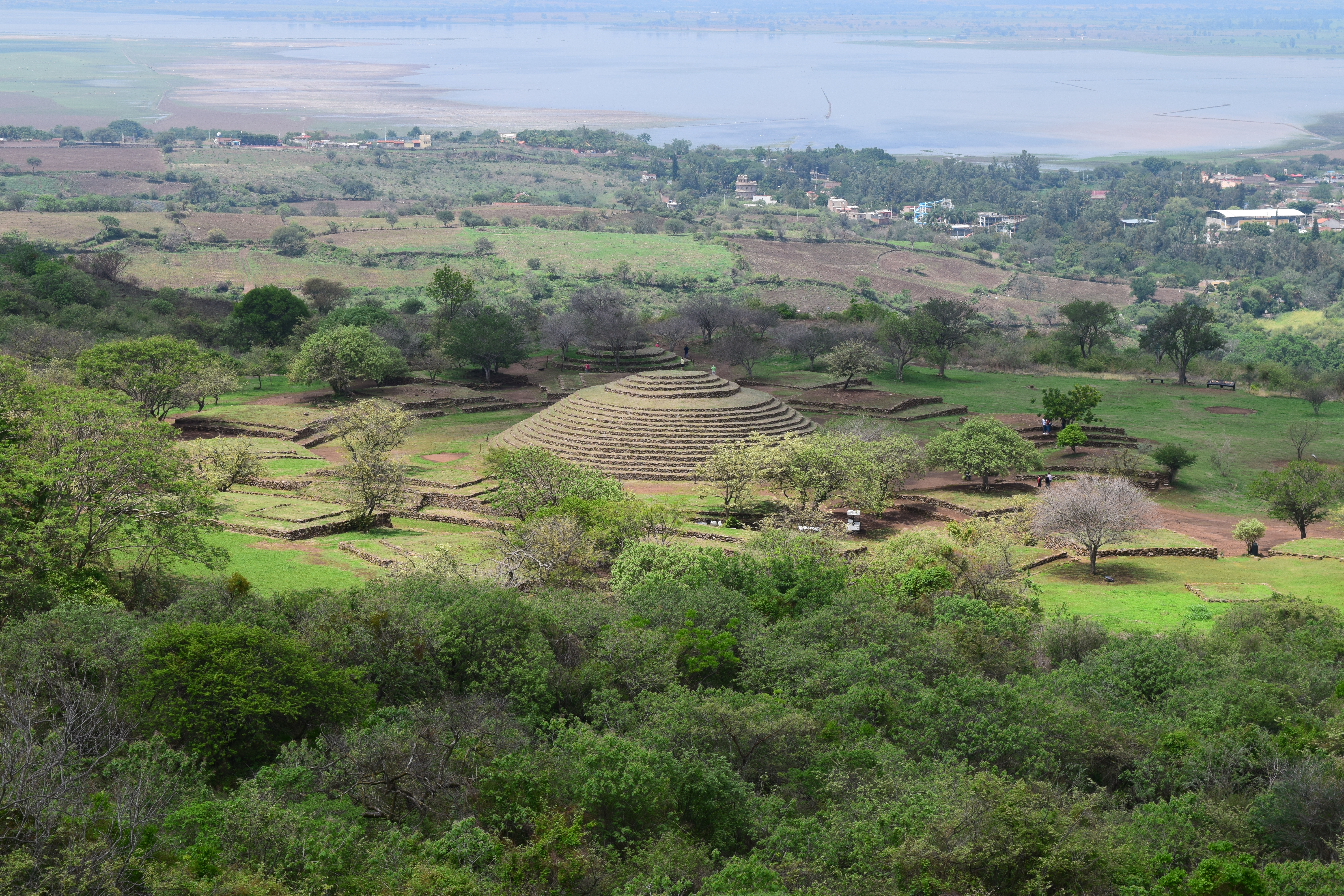 A view of Circle 2 at the site of Los Guachimontones, Jalisco, Mexico from atop a nearby hill